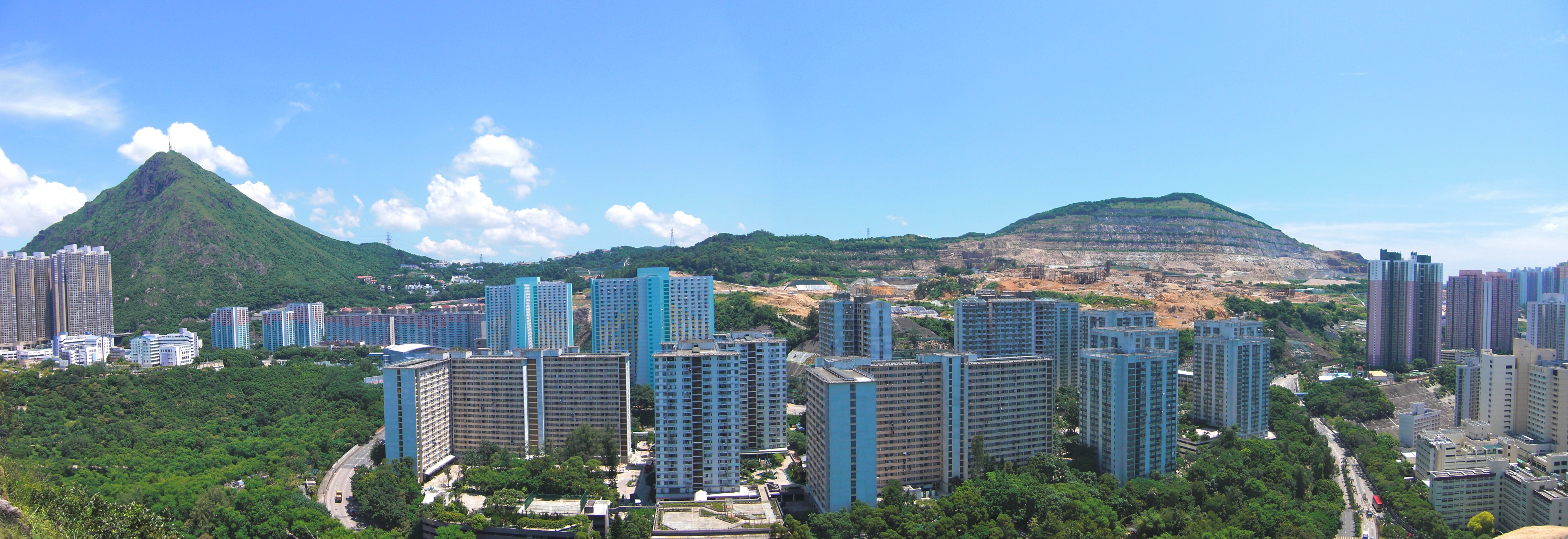 Looking towards the northeast from Shum Wan Shan. A view of Sze Shun is seen. Tai Sheng Tok Anderson Road Quarry stands at the background.